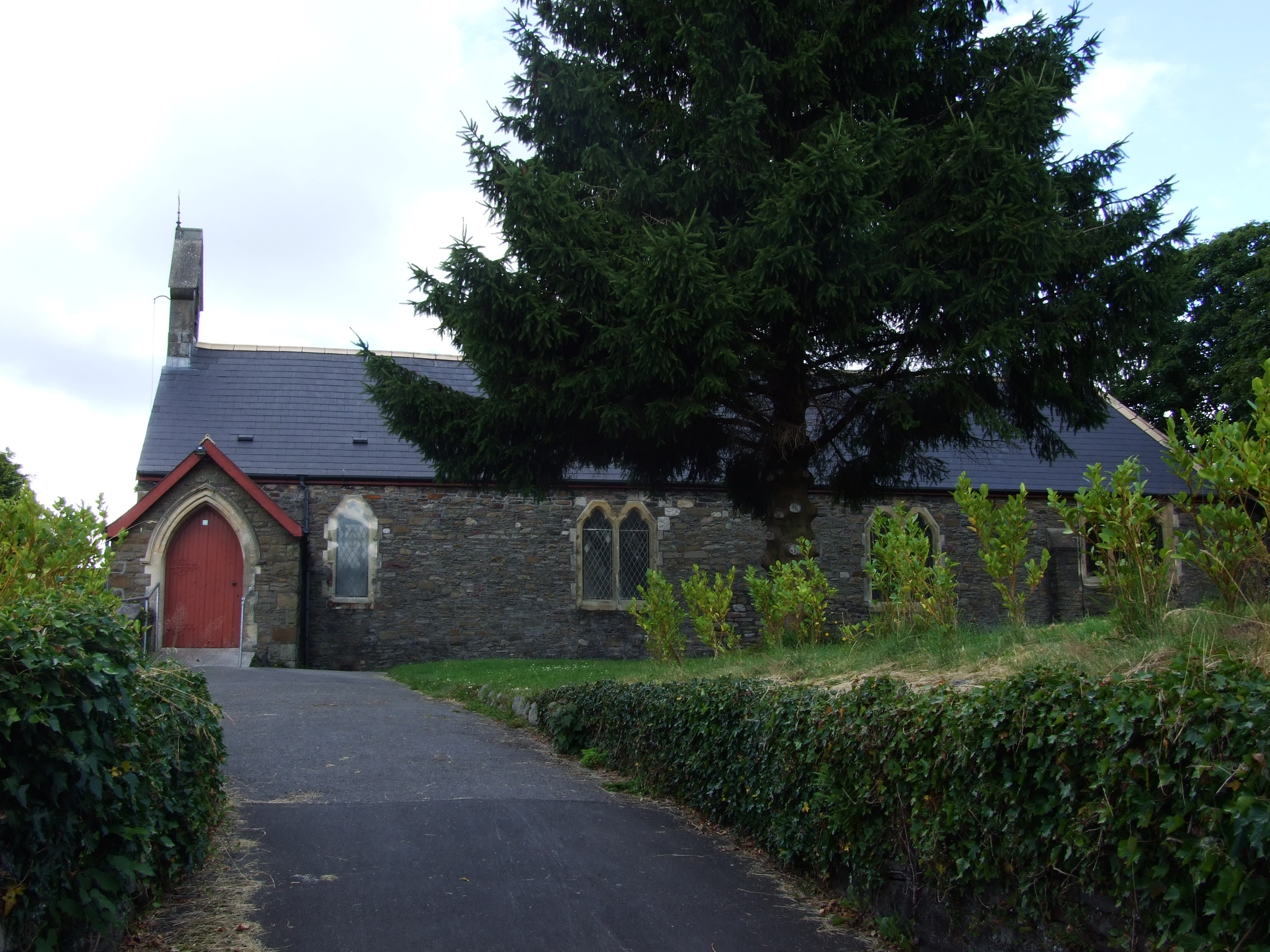 St Paul's parish church, School Road, Glais, Swansea, Wales, seen from the southeast